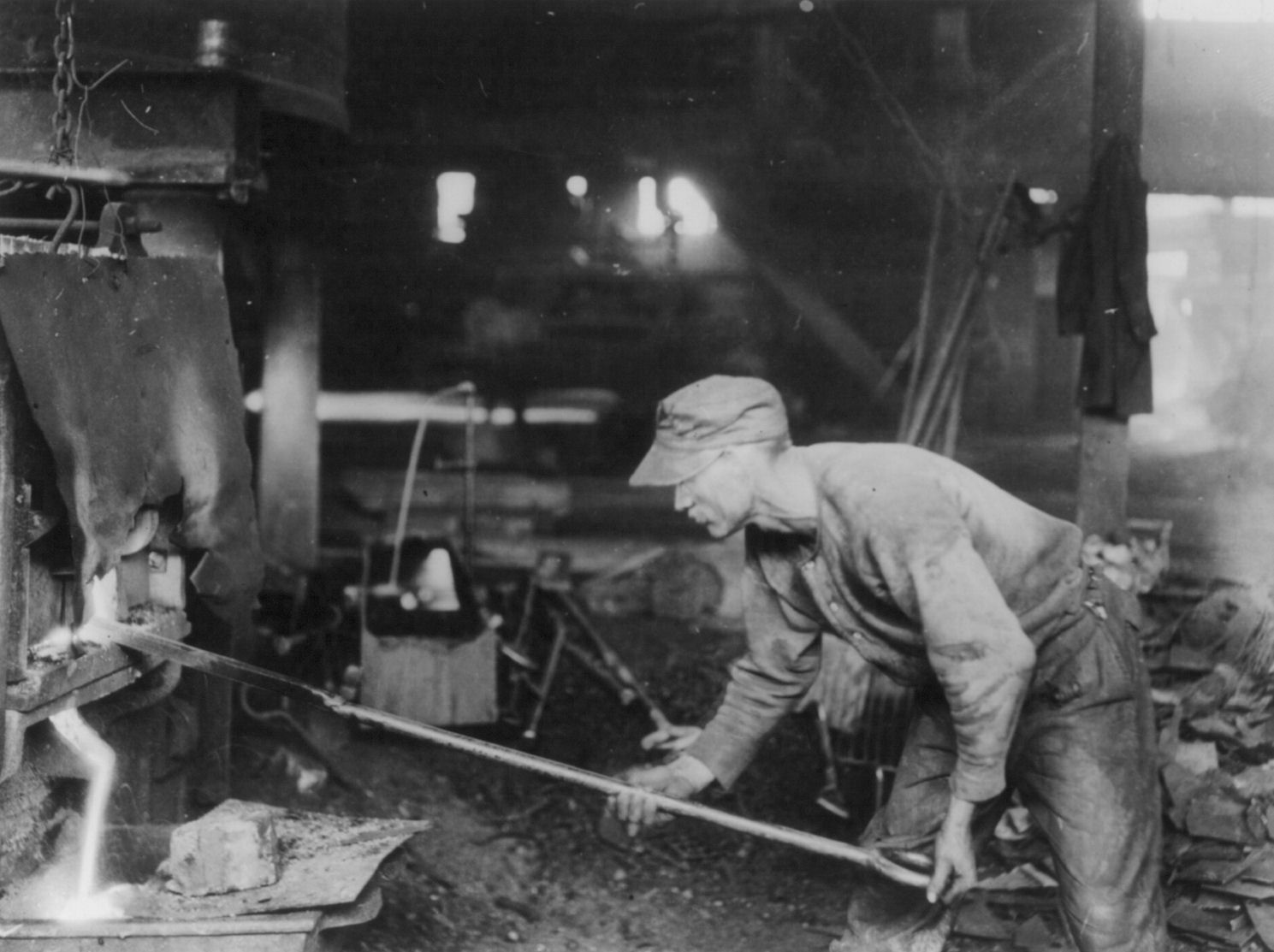 A puddler draining cinder from a puddling furnace after the extraction of the balls of molten iron (circa 1919).